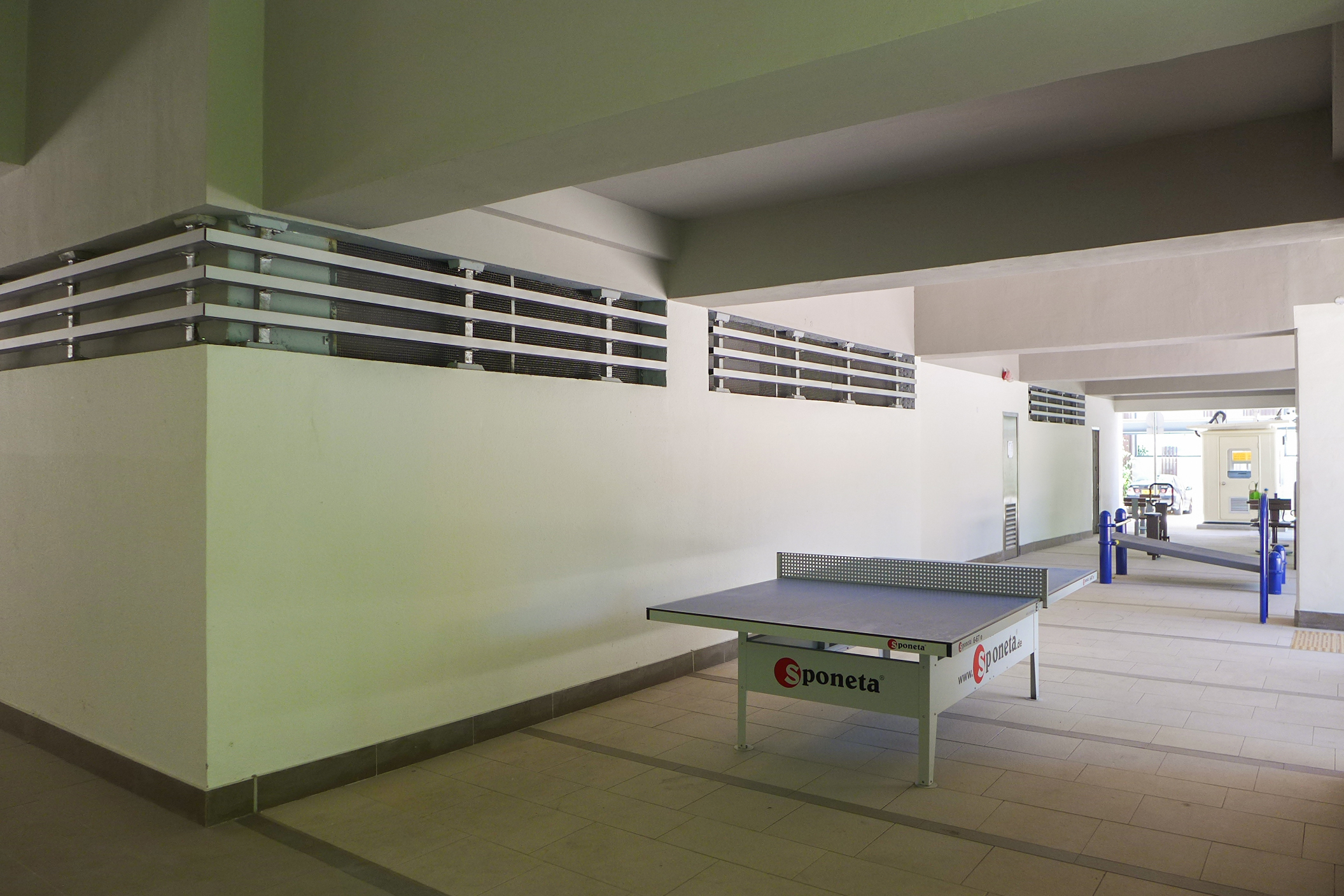 Wang Fu Court Indoor space